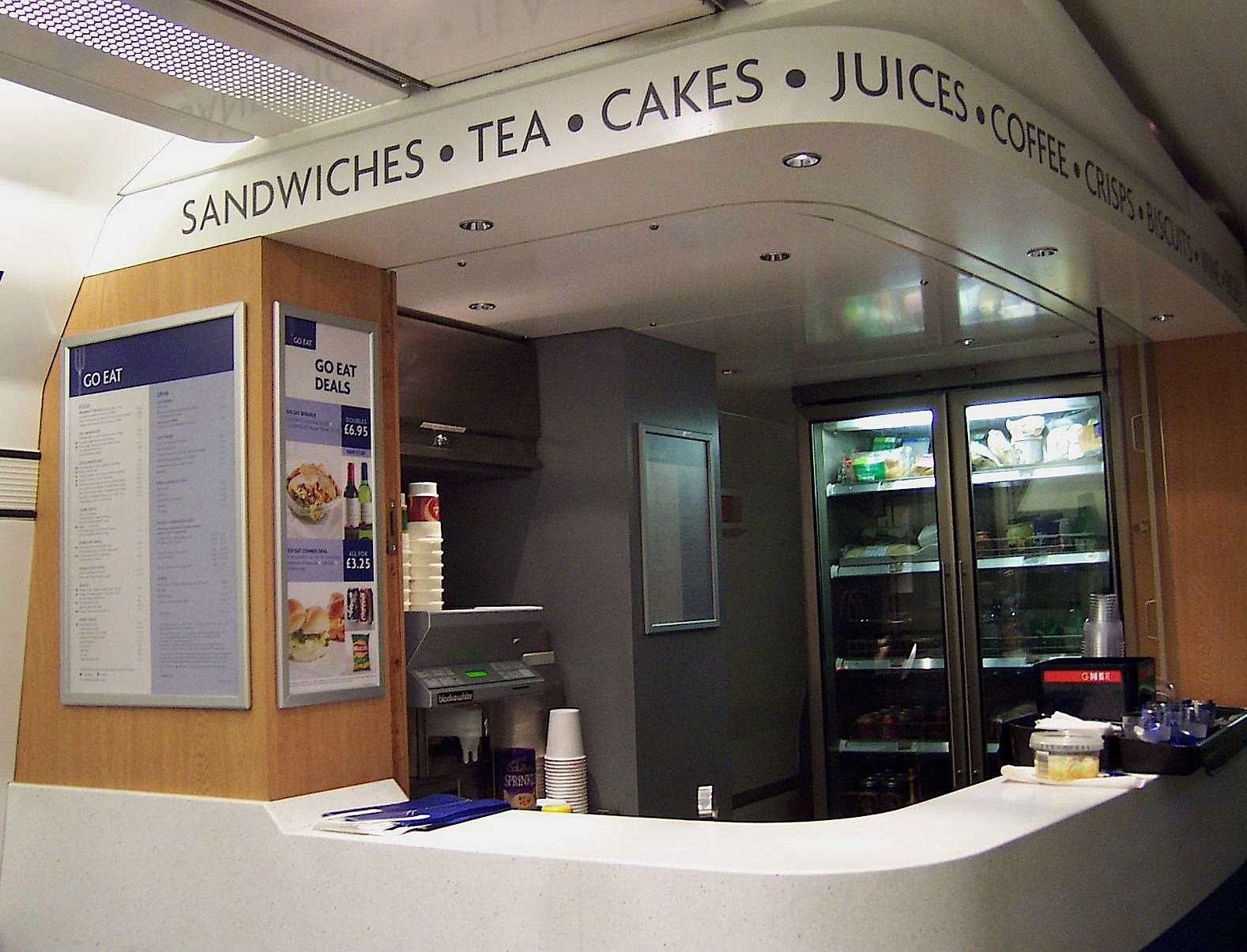 The interior of a refurbished GNER Mark IV RSM vehicle, showing the Cafe-Bar buffet counter.